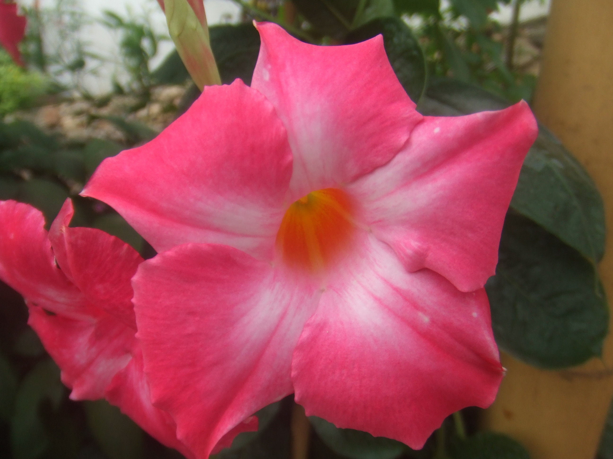 Adenium obesum, picture take at the Passiflorahoeve in Harskamp, The Neterhlands.